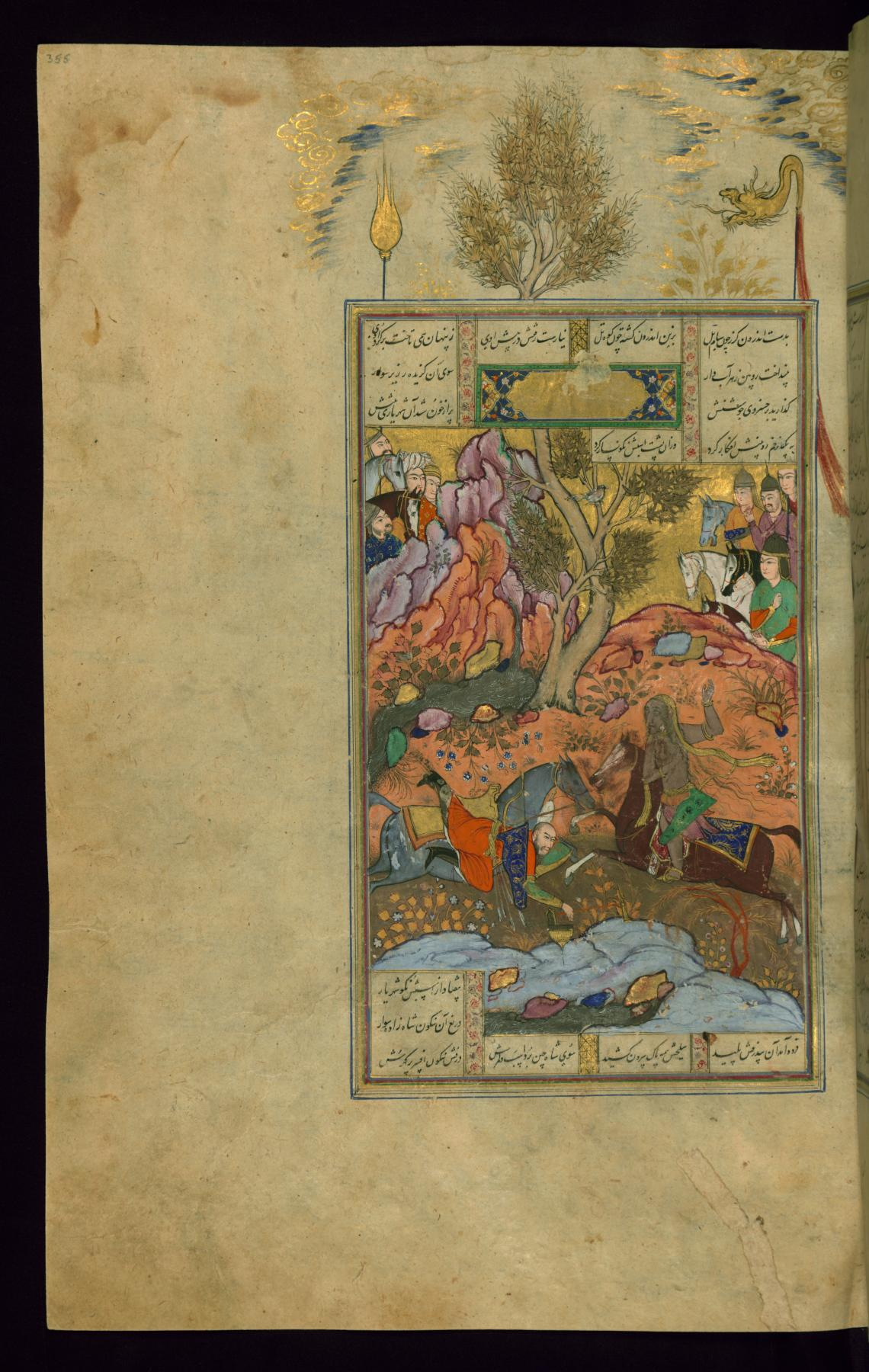 On this folio from Walters manuscript W.602, Bidarafsh kills Zarir, the brother of Gushtasp.